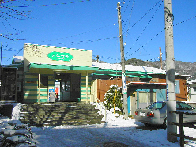 Gekkōji Station. Fujiyoshida, Yamanashi, Japan. From the Chūō street toward west.